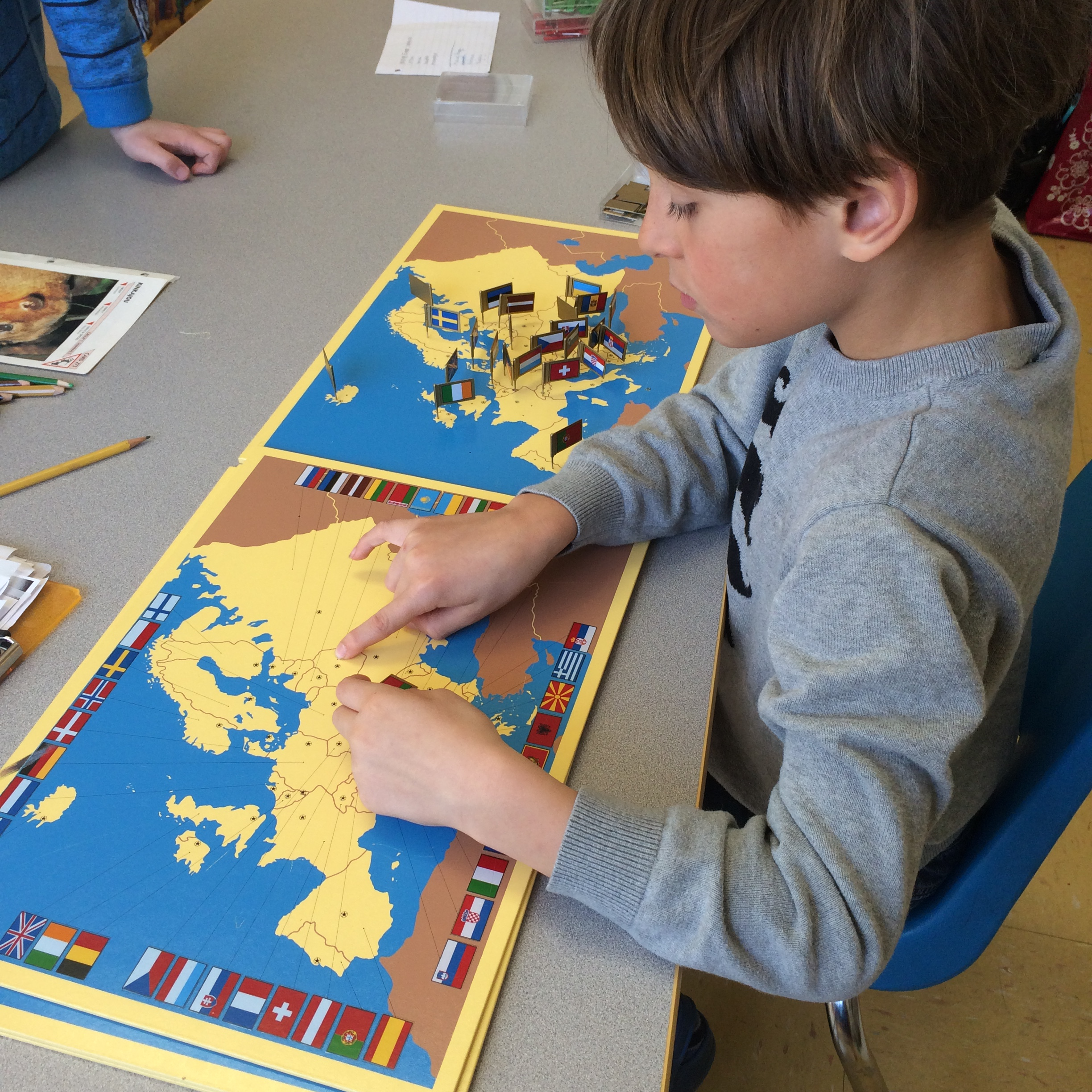 Boy using Montessori Pin Map of Europe at The Children's Tree Montessori School